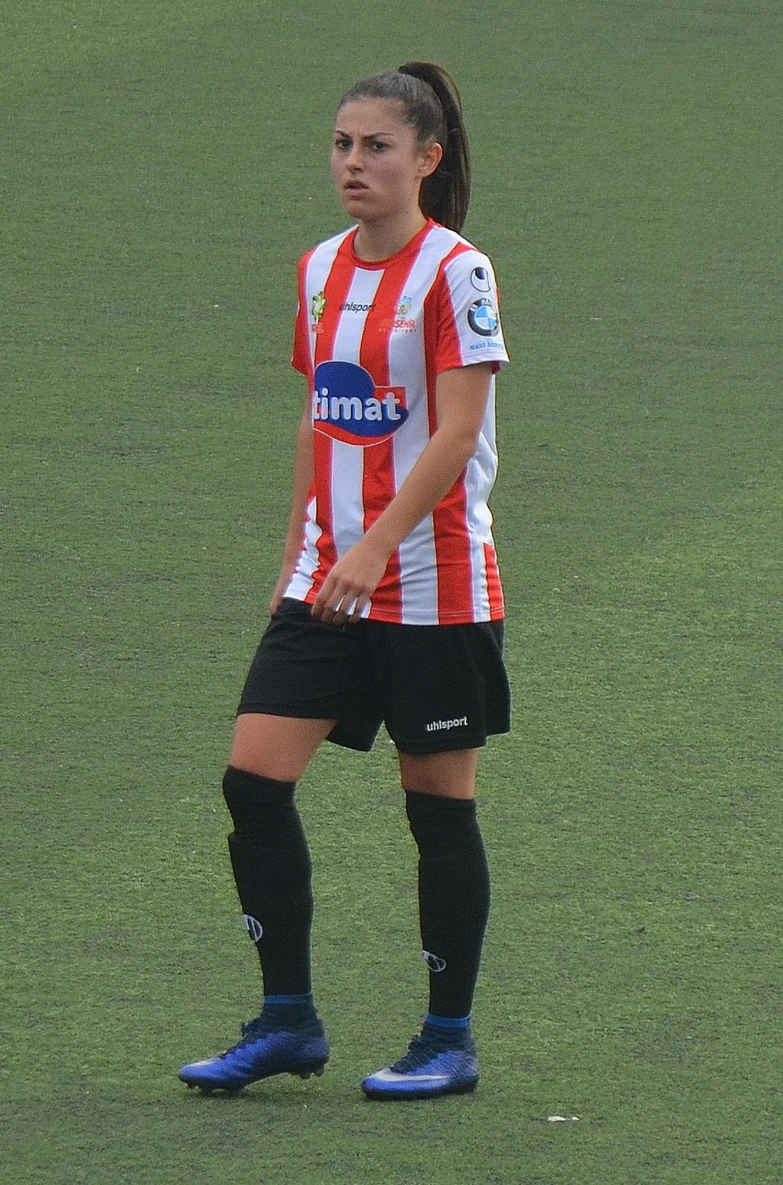 Ecem Cumert for Ataşehir Belediyespor in the home match against Fatih Vatan Spor in the 2017-18 season.